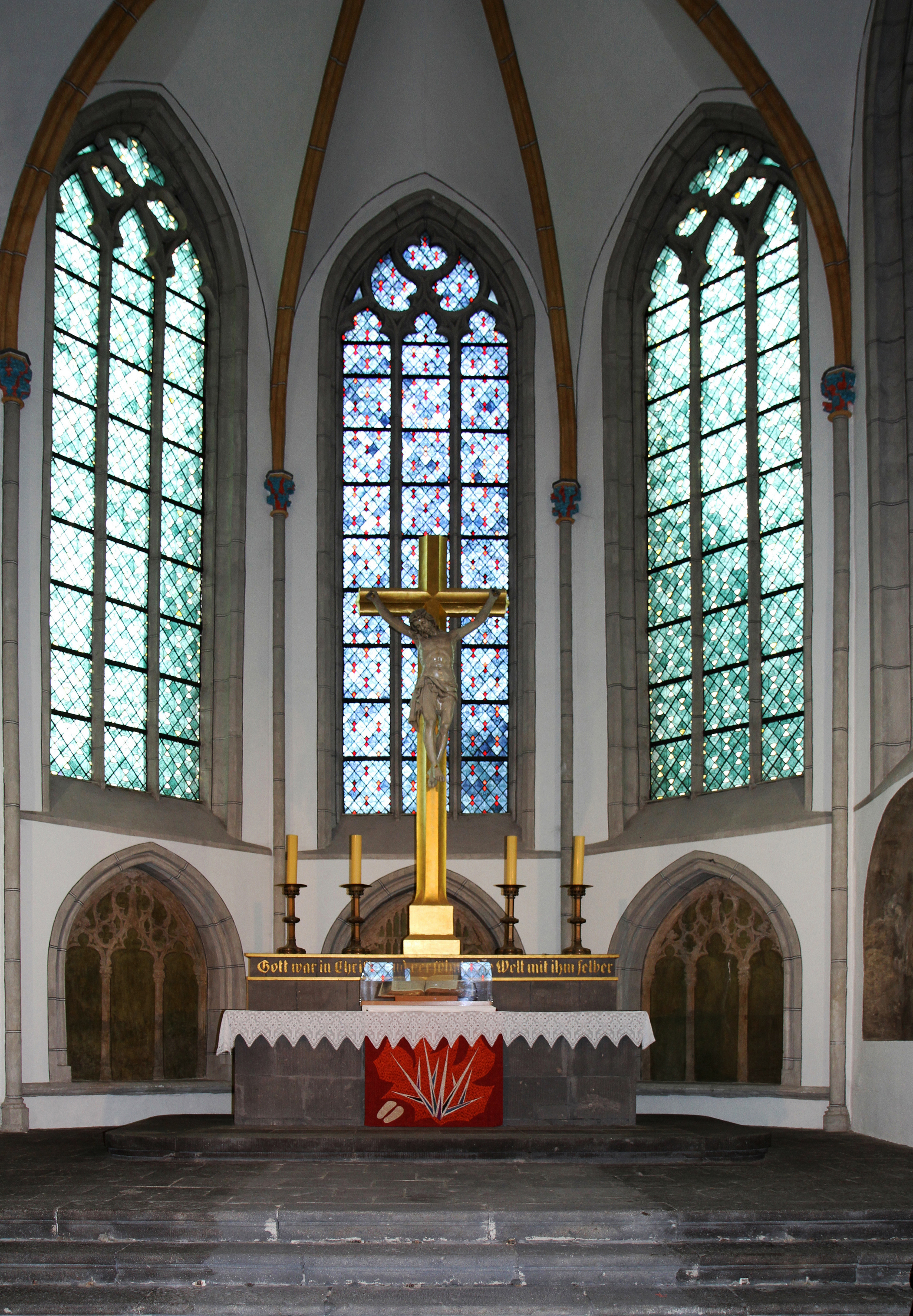 Former roman-catholic church Saint Florin in Koblenz, Germany.